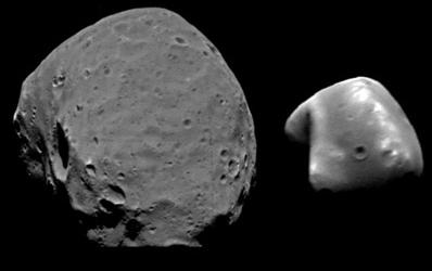 rotated version to better fit page, Mars' moons